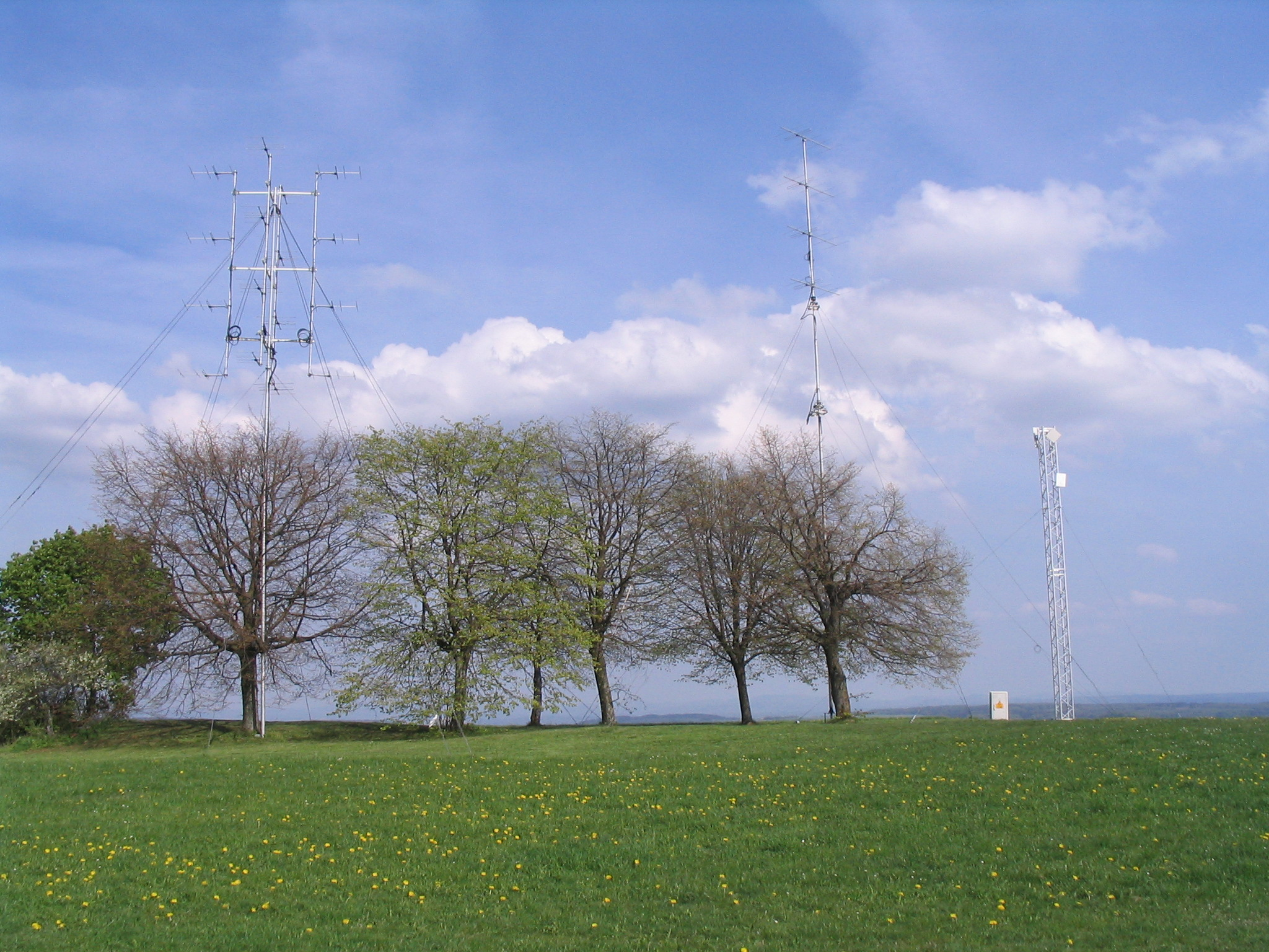 Antennas in the Vogelsberg-Mountains in Hesse, Germany